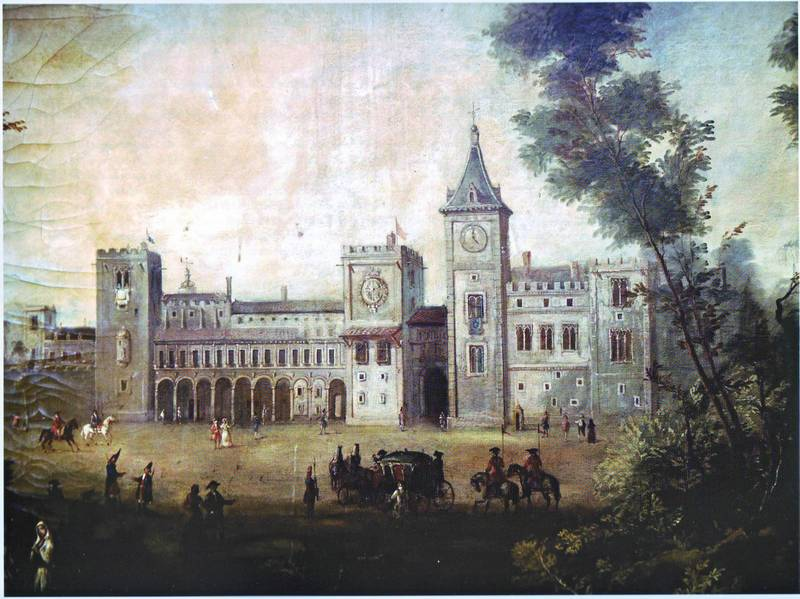 Anonymous painting which depicted the Royal Palace of Valencia, or Del Real, 19th c.